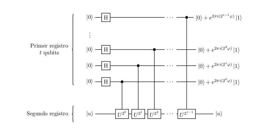 This is the quantum circuit diagram of the phase estimation inspired by Nielsen and Chuang's book.